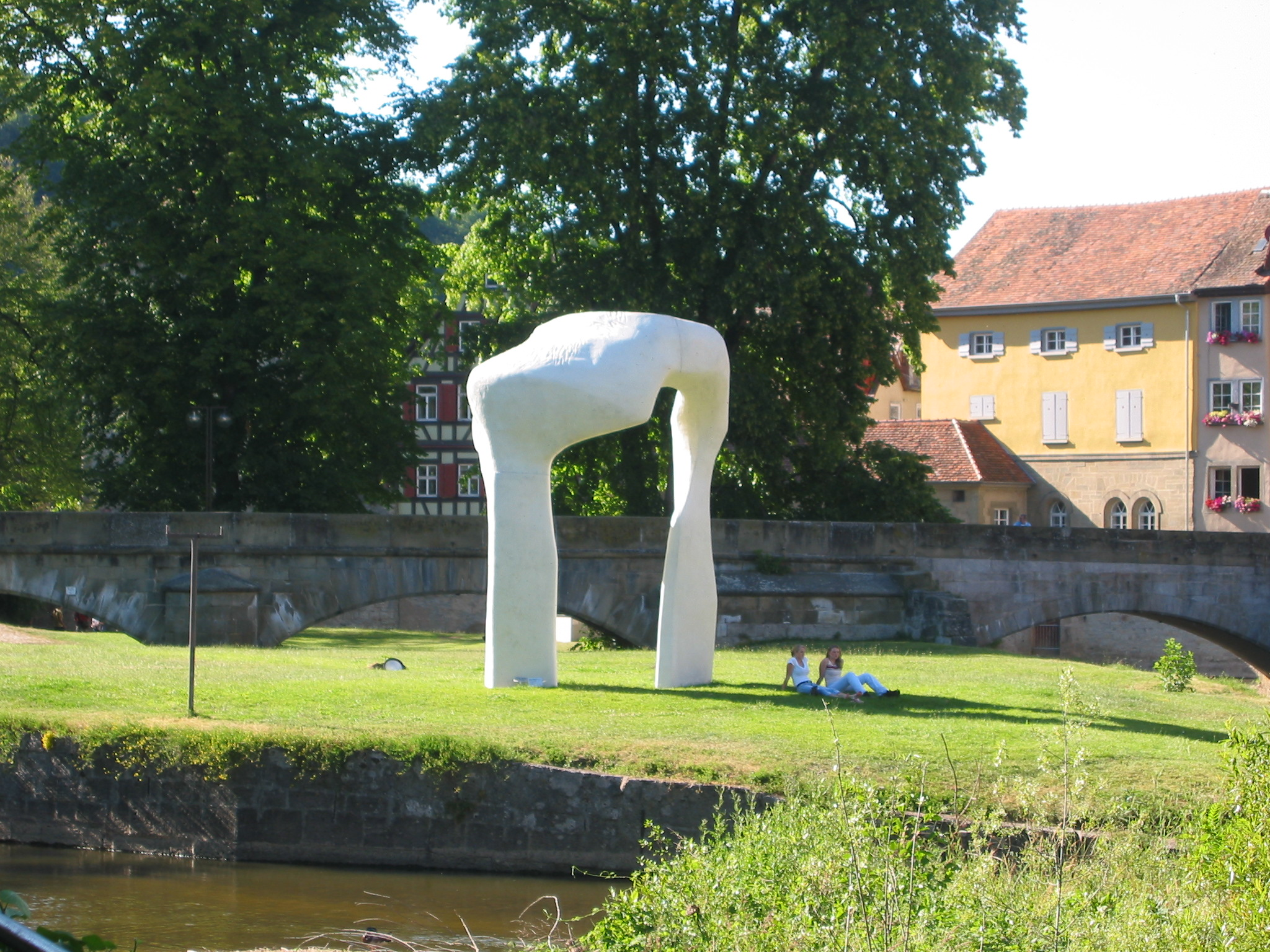 Henry Moore - Kunst in Schwäbisch Hall